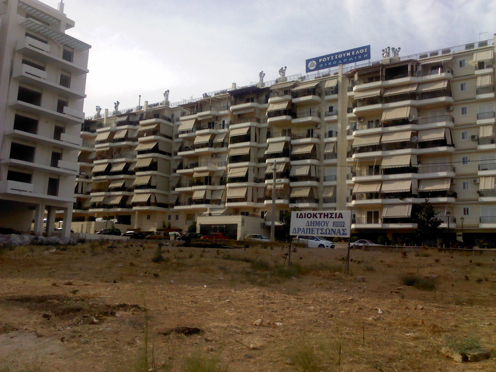 Bourla buildings